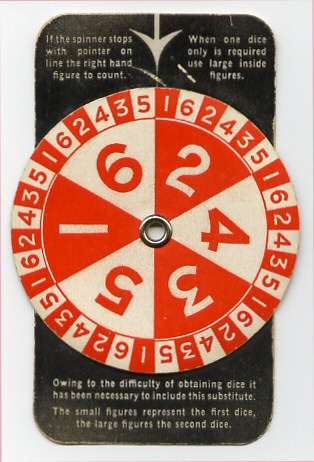 Replacement for dice in Monopoly due to rationing of World War II.